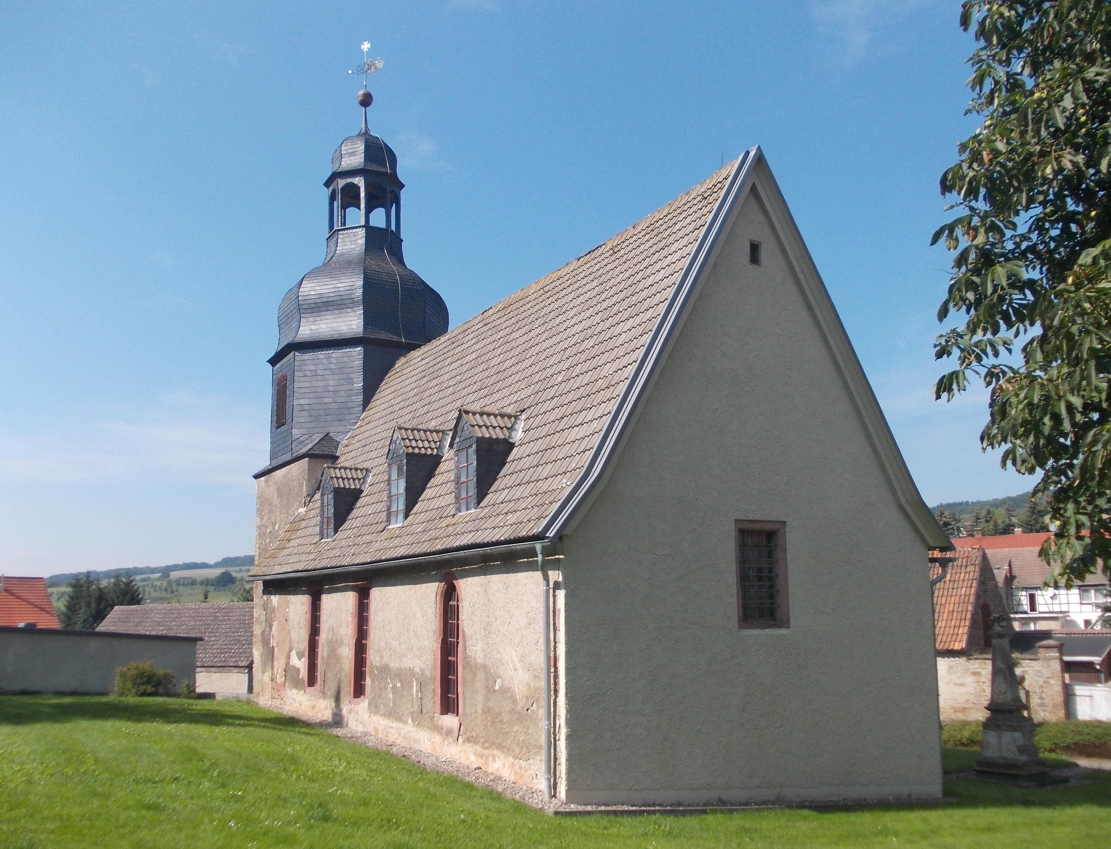 The church St. Maurice in Pölsfeld (Allstedt, Mansfeld-Südharz district, Saxony-Anhalt)